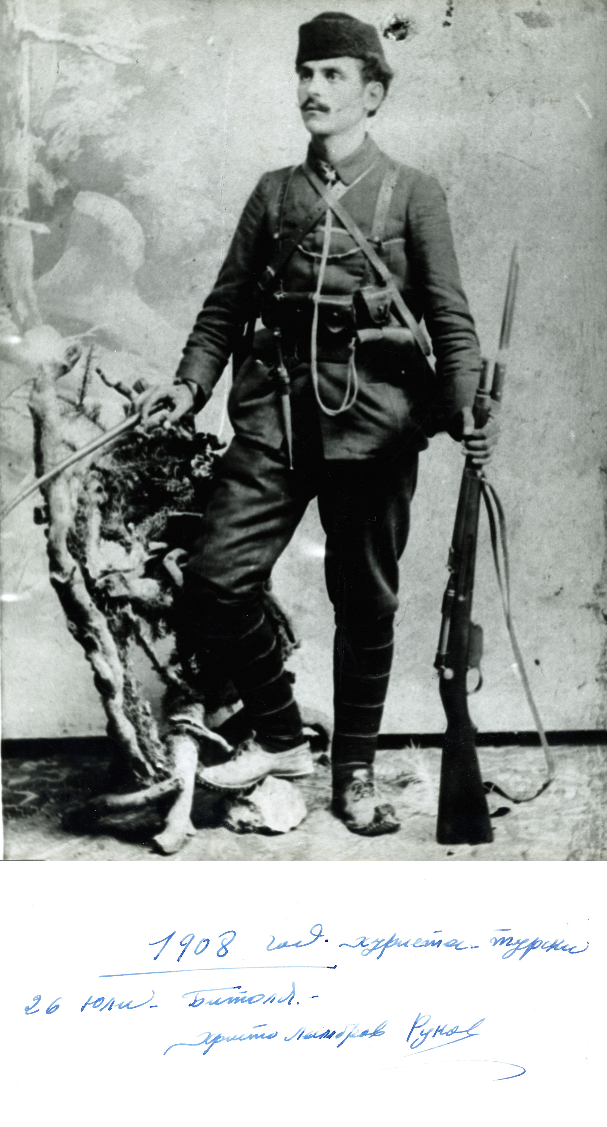 Portrait of Christo Rukov.